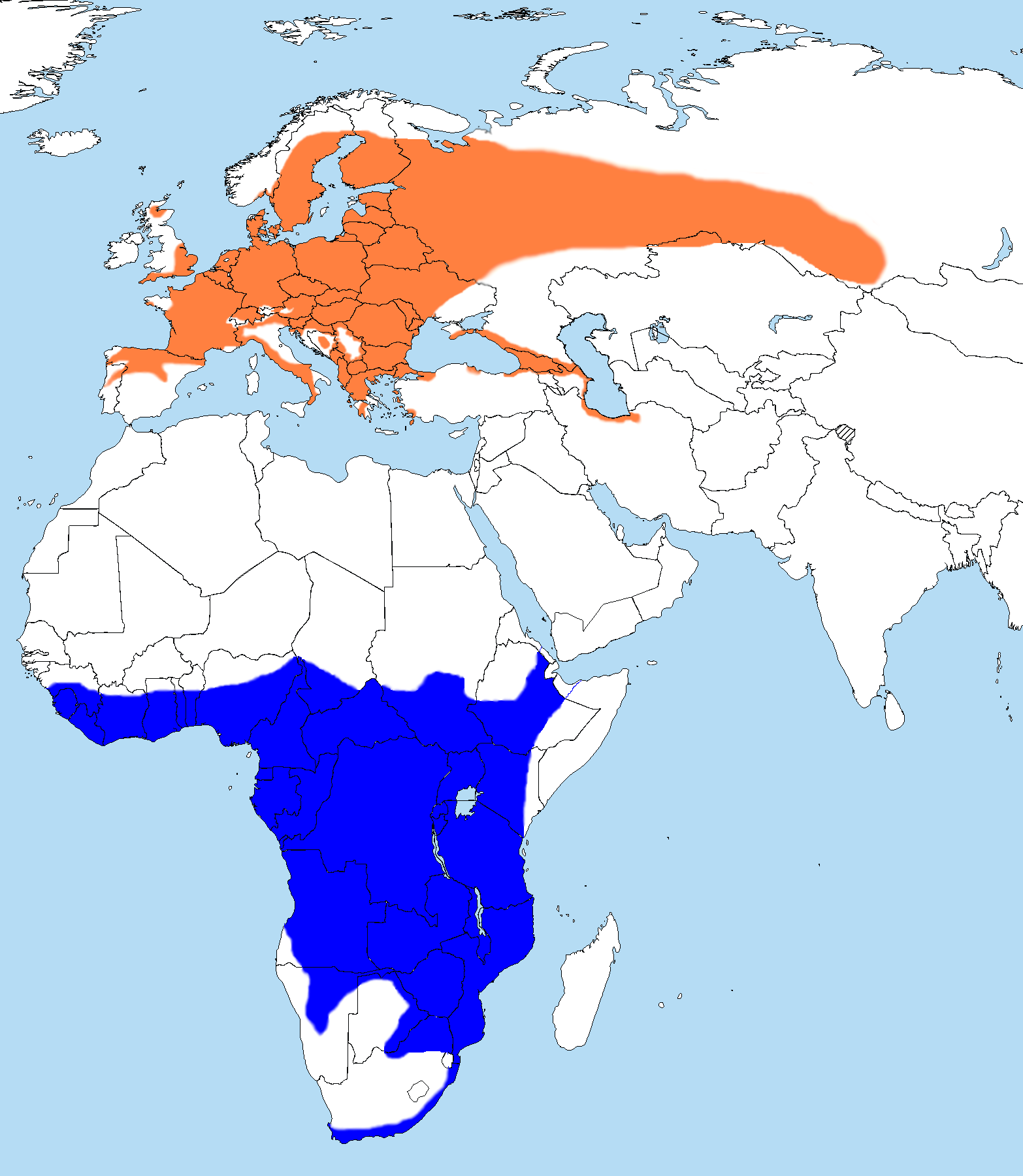 Pernis apivorus - Distribution Map